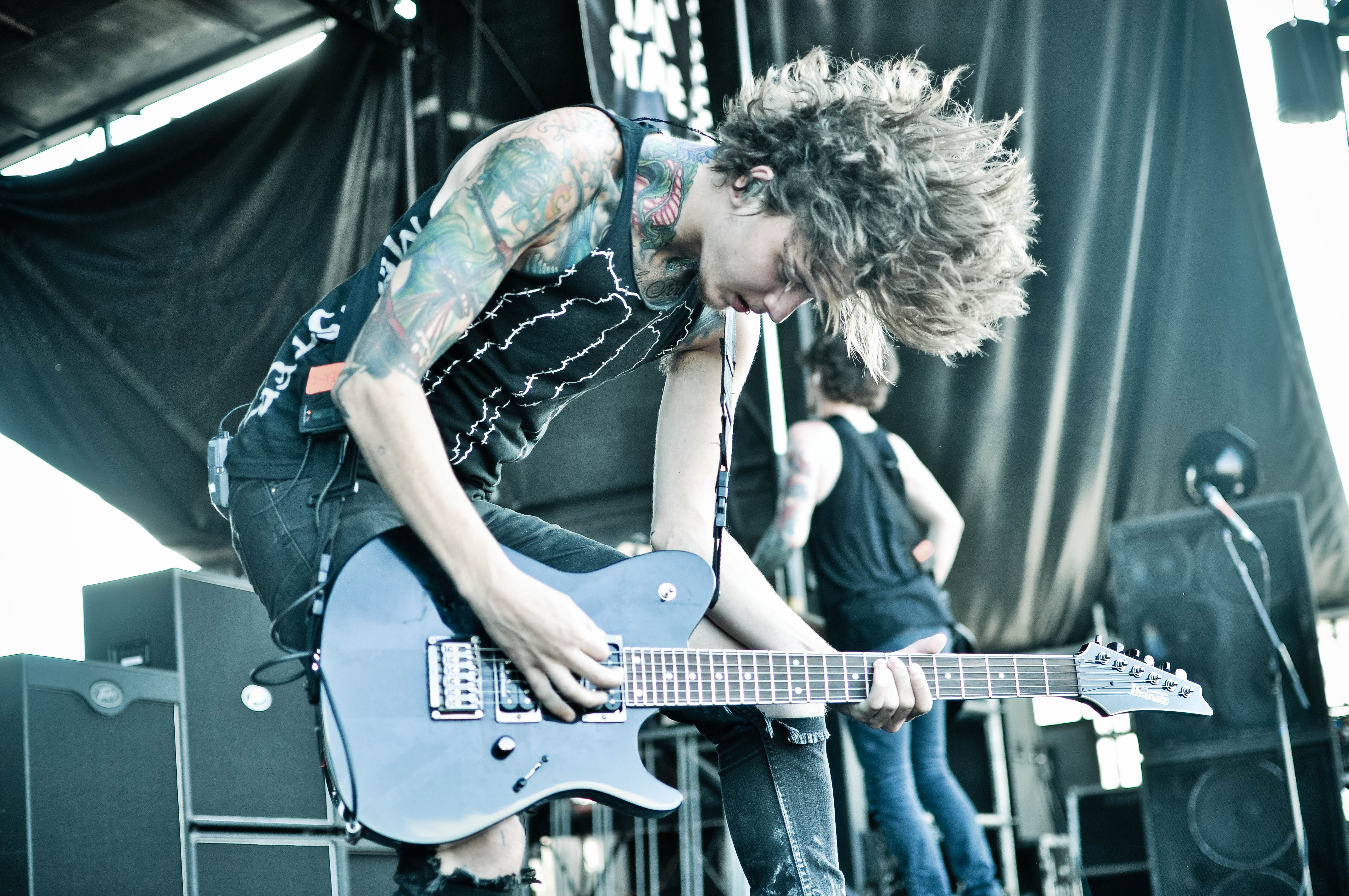 Asking Alexandria founder and guitarist performing at the Vans Warped Tour in 2011.